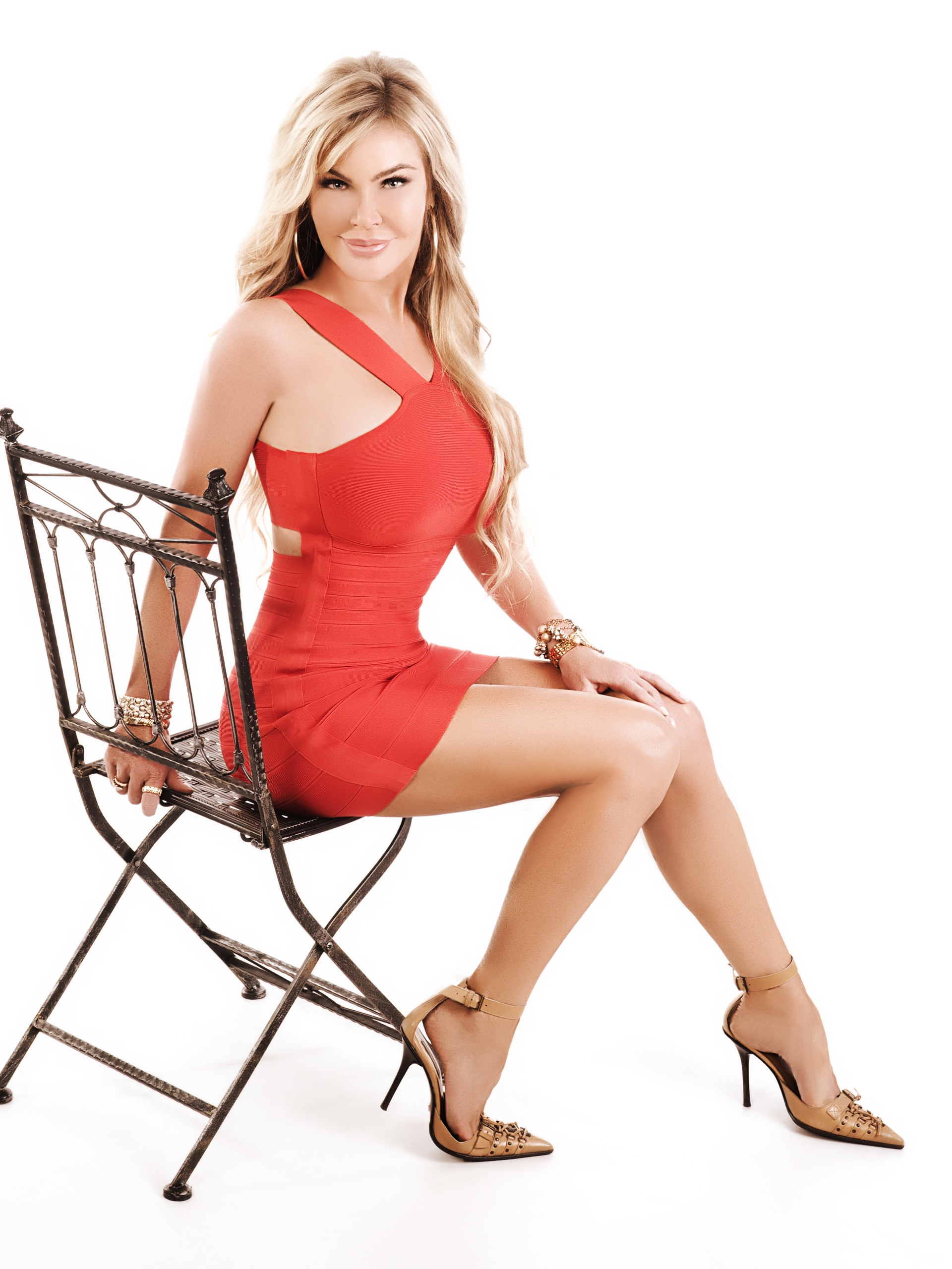 April Masini in a red dress